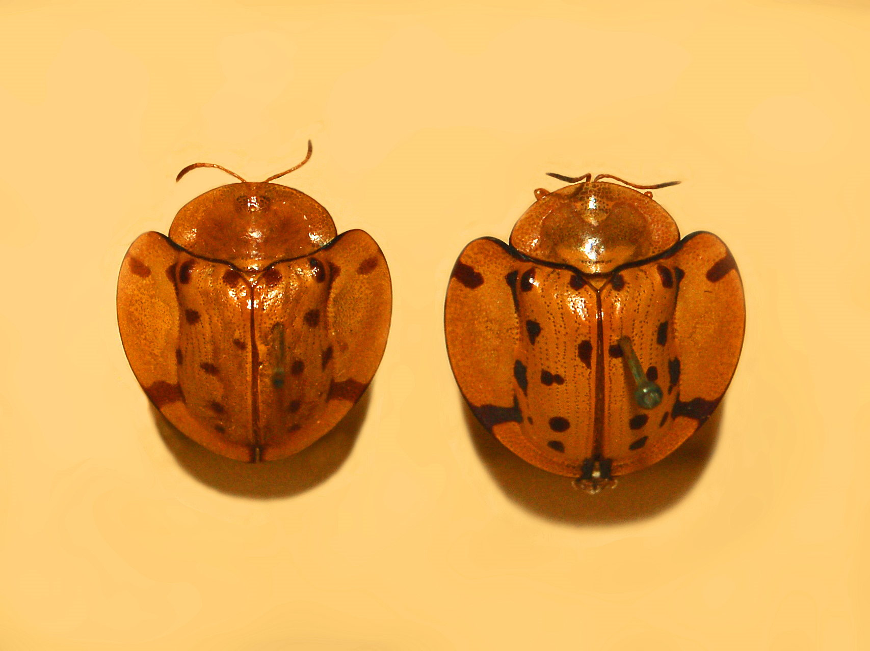 Aspidomorpha miliaris from Sumatra